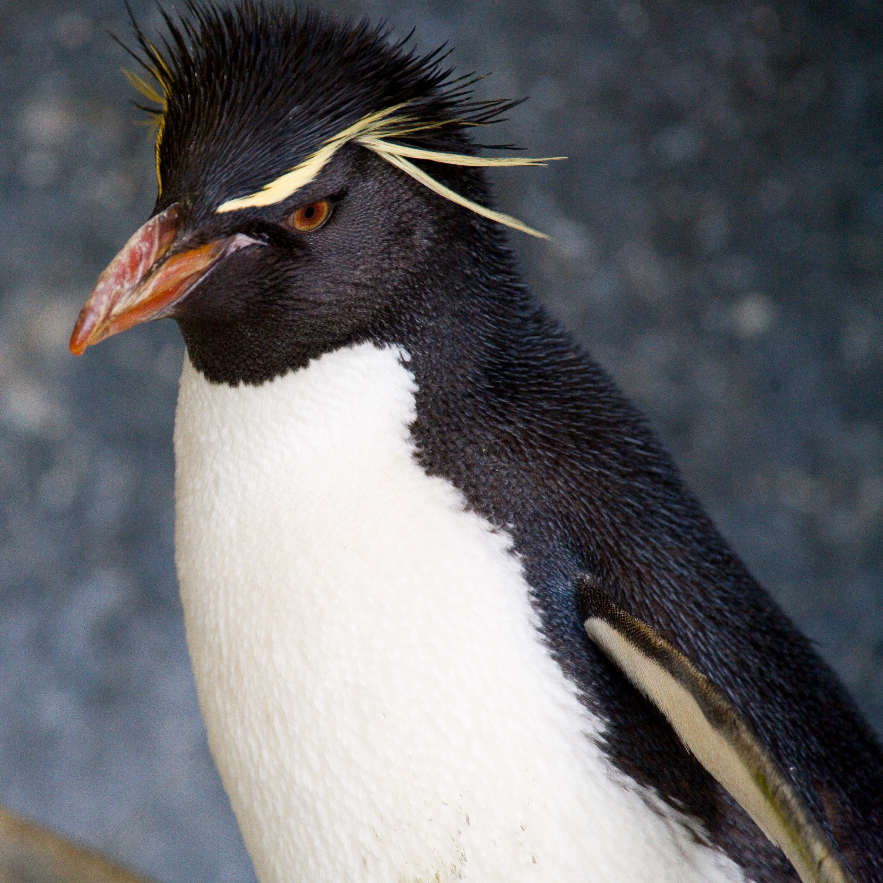 A Rockhopper pengiun (Eudyptes Chrysocome)